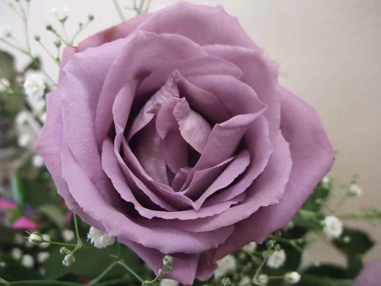 Example of blue rose cultivar